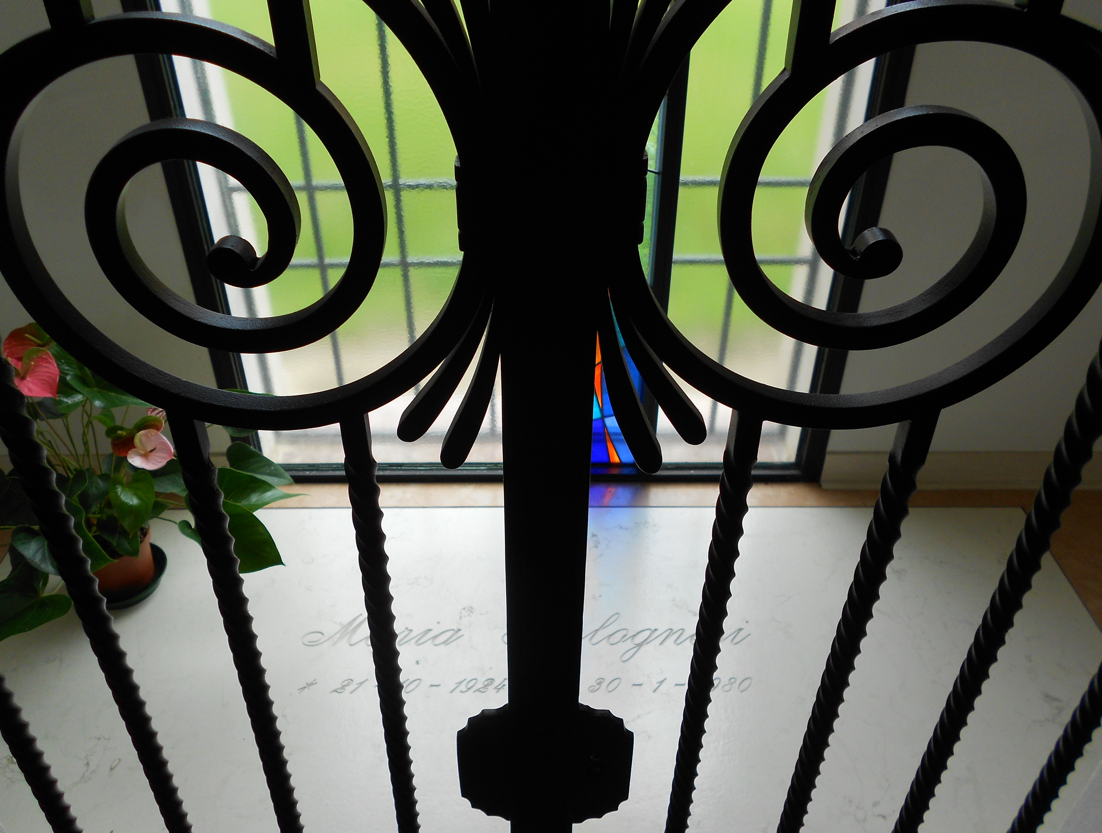 Grave of Maria Bolognesi, Bosaro, Rovigo, Italy